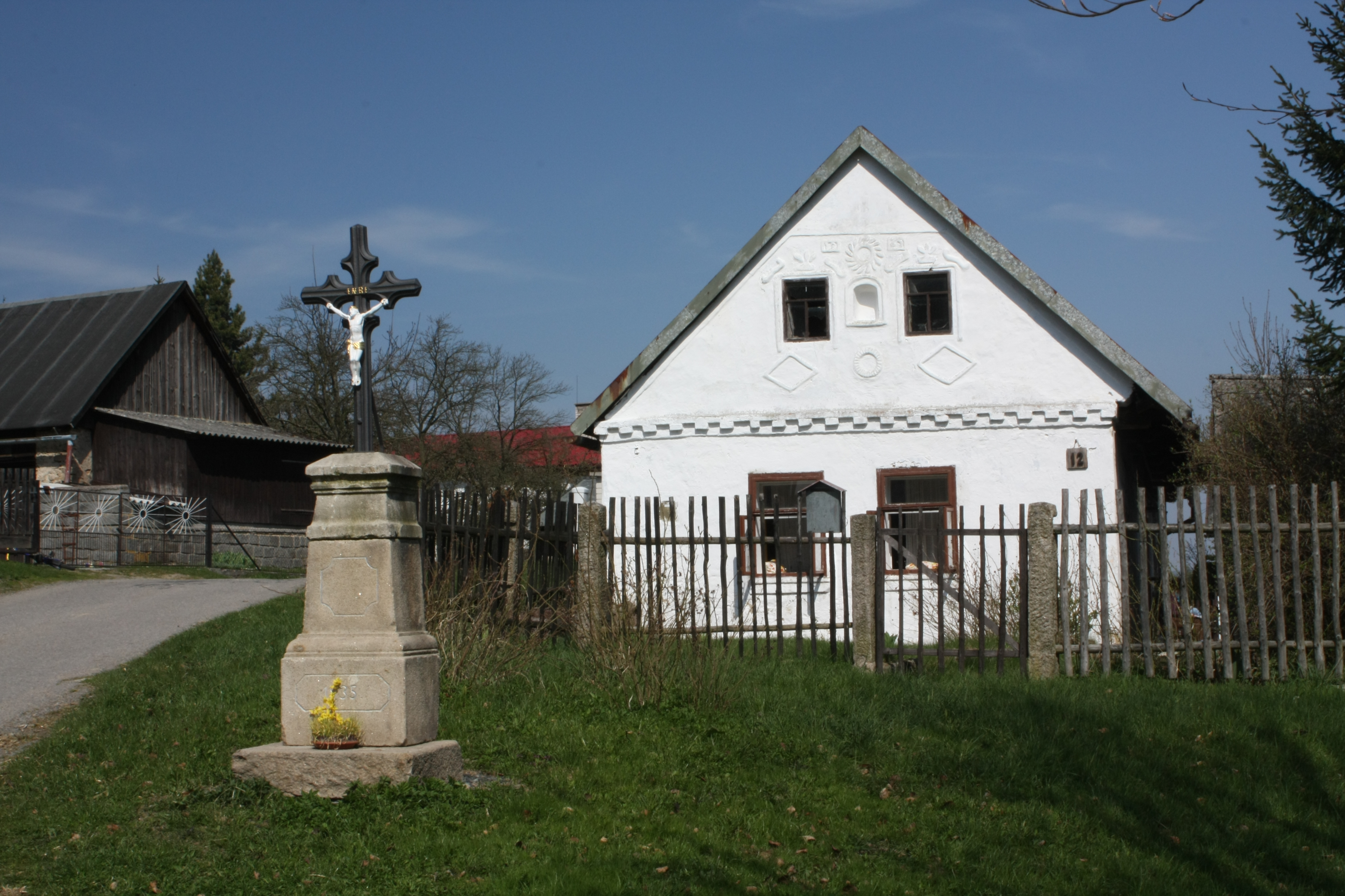 Koňkovice, Havlíčkův Brod District, Czech Republic Object location49° 38′ 56.25″ N, 15° 20′ 12.27″ E